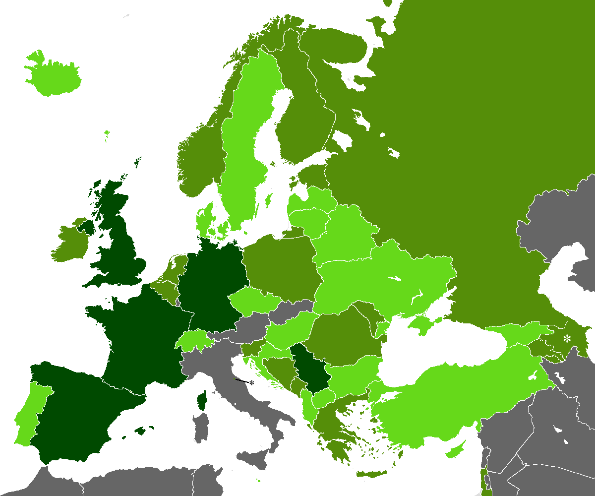 Map showing countries which are automatically qualified for the Eurovision Song Contest 2008 final. Correct as of 17 October 2007.